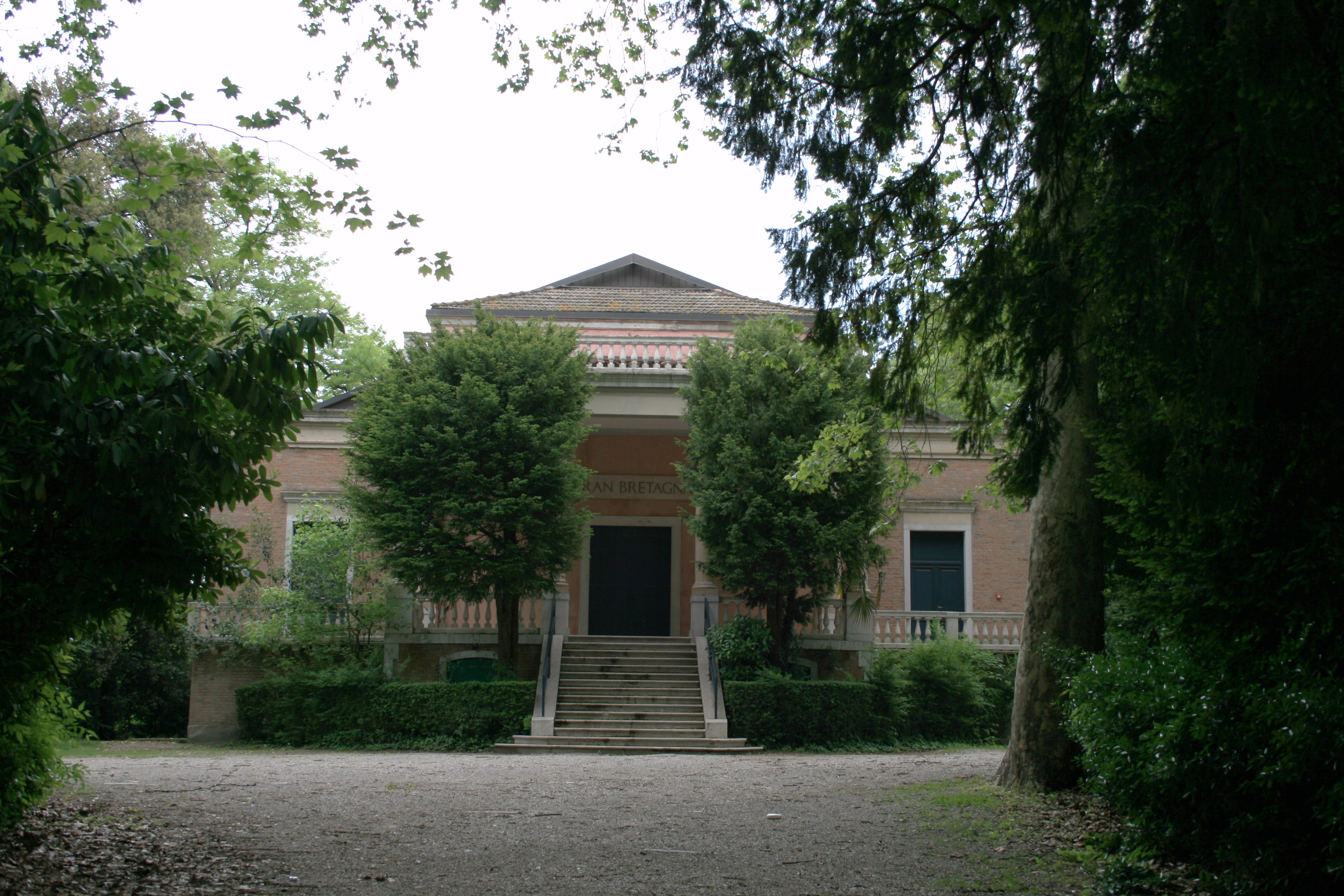 Great Britain pavilion at the Venice Biennale Park by Edwin Alfred Rickards (died in 1920)